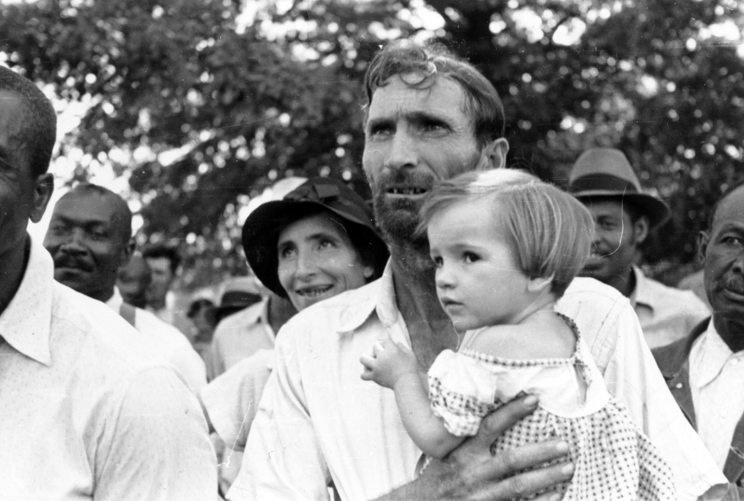 Title: Man holds a child at an outdoor STFU meeting Date: 1937 Photographer: Louise Boyle Photo ID: 5859pb2f19ap800g Collection: Louise Boyle. Southern Tenant Farmers Union Photographs, 1937 and 1982 Repository: The Kheel Center for Labor-Management Documentation and Archives in the ILR School at Cornell University is the Catherwood Library unit that collects, preserves, and makes accessible special collections documenting the history of the workplace and labor relations. Notes: Copyright: The copyright status of this image is unknown. It may also be subject to third party rights of privacy or publicity. Images are being made available for purposes of private study, scholarship, and research. The Kheel Center would like to learn more about this image and hear from any copyright owners who are not properly identified so that we may make the necessary corrections. Tags: Kheel Center for Labor-Management Documentation and Archives,Cornell University Library,Children, African Americans, Meetings